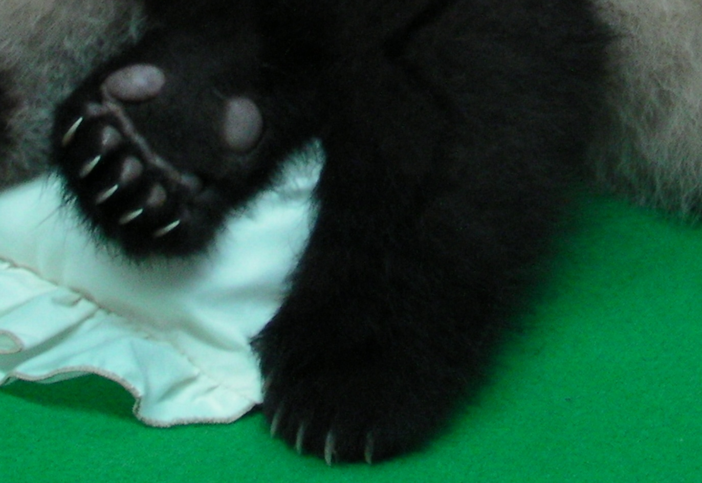 Lin Bing, a giant panda at Chiang Mai Zoo, Thailand